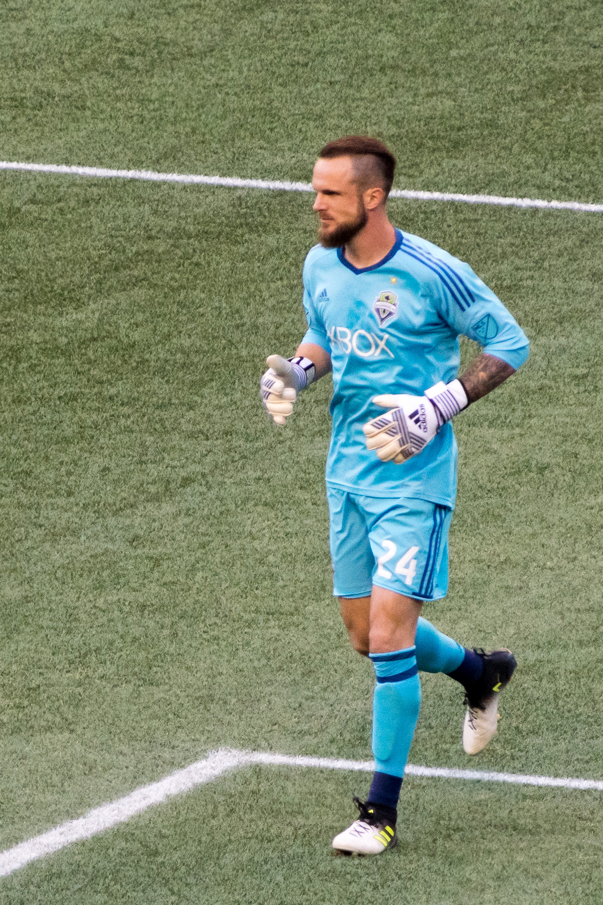 Stefan Frei during Seattle Sounders FC vs. San Jose Earthquakes on July 23, 2017